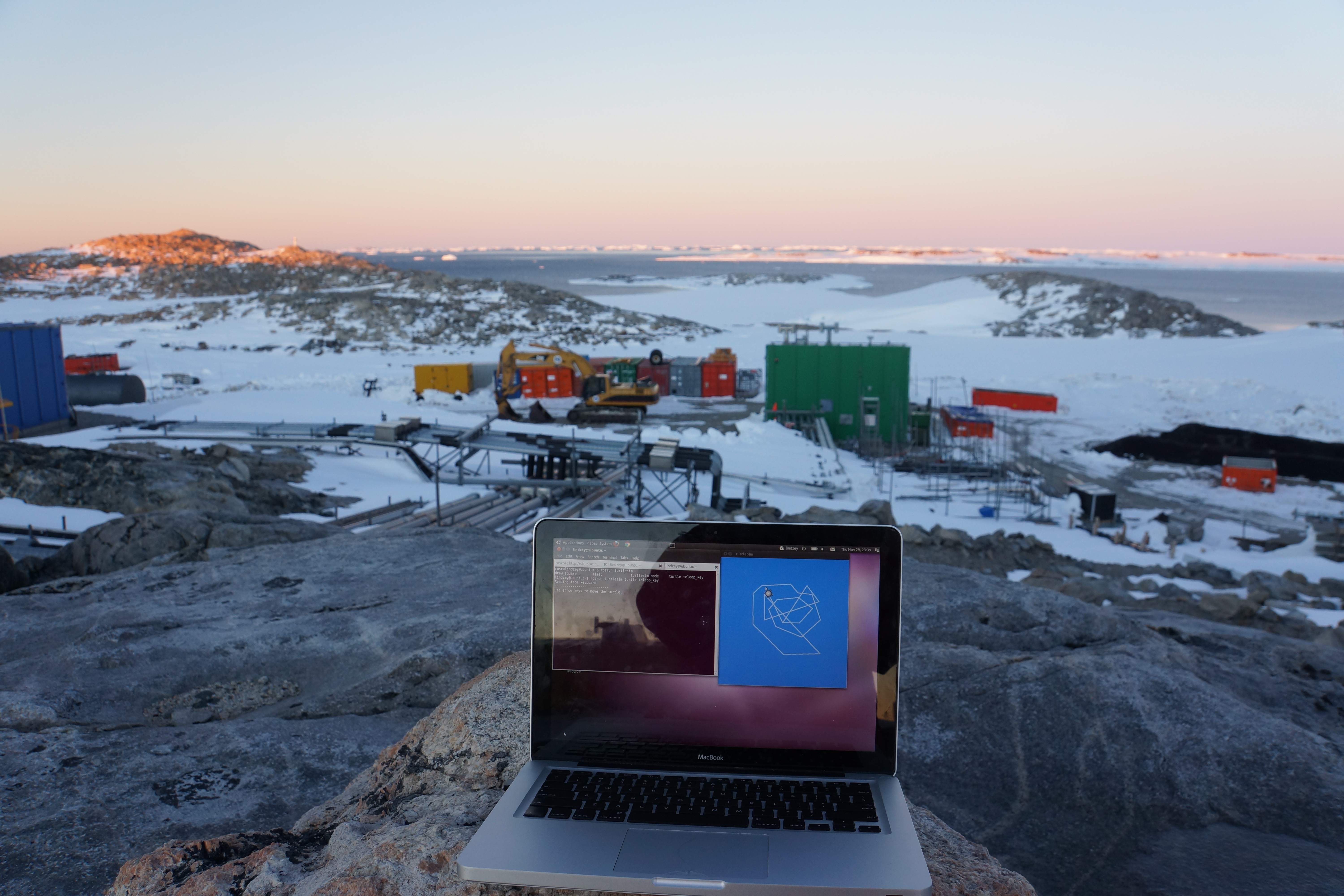 The first known image of Robot Operating System (ROS) being run in Antarctica, at sunset. The program running is turtlesim, a simple example program often used in ROS tutorials.